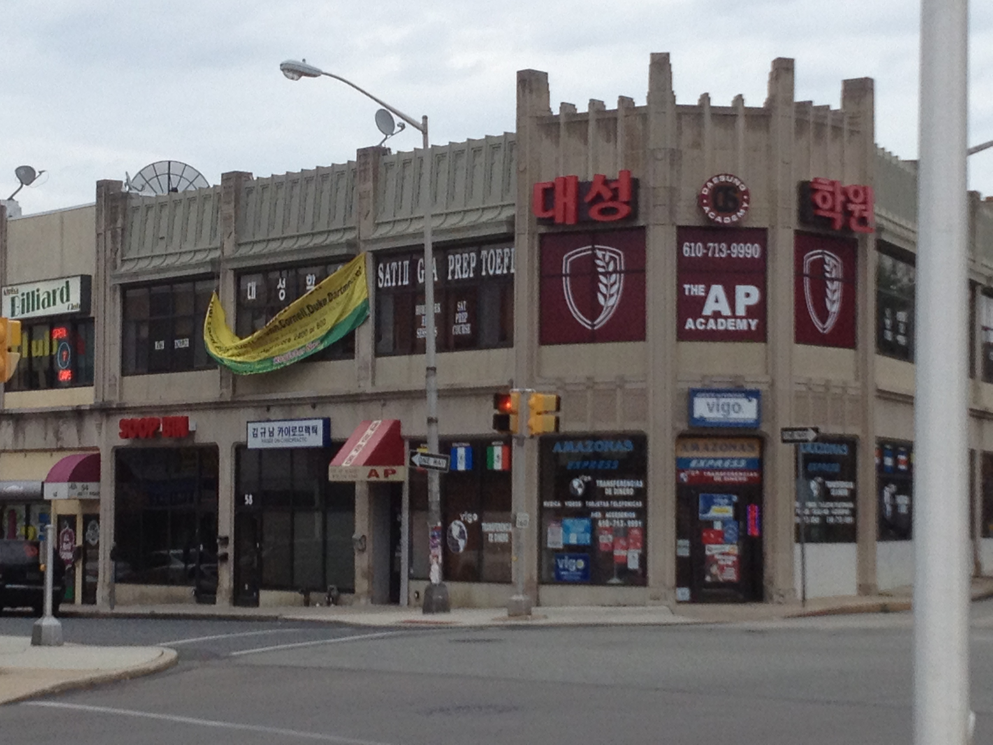 Koreatown Upper Darby another angle